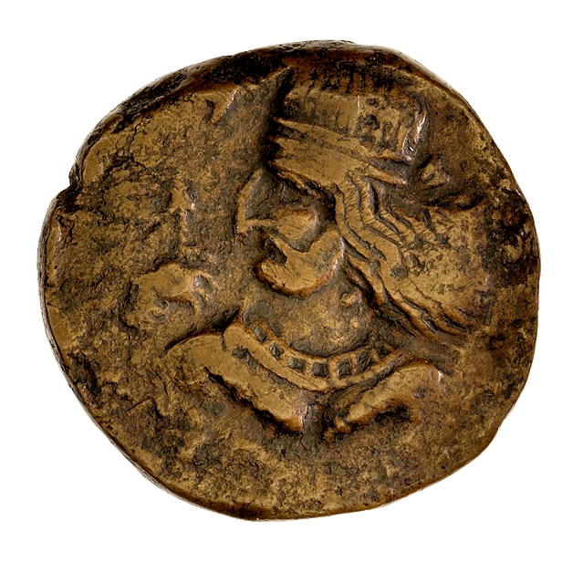 Bronze coin of Farn-Sasan. Obverse. Until recently, Farn-Sasan's name was misinterpreted as "Ardamitra".